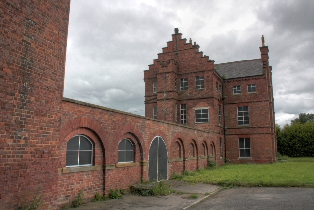 Former St. Peter's School, built in 1900 as an orphanage by the Catholic Church. After the second World War it became an approved school, and was closed in 1984. Apart from a brief period as a nursing home it has remained empty ever since. The window panes are painted on boarding to resemble real windows.